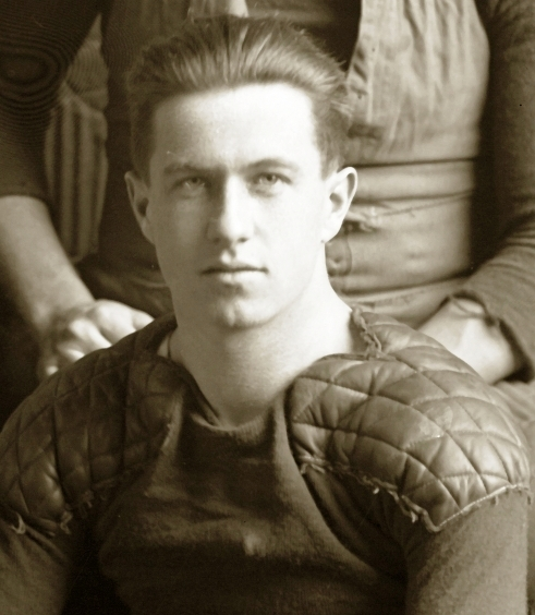 Photograph of Shorty McMillan